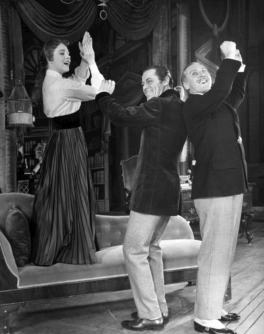 Photo of Julie Andrews, Rex Harrison and Robert Coote from My Fair Lady. In this scene, Eliza's lessons have finally paid off; Eliza, Higgins and Colonel Pickering dance in Higgins' study in jubilation-"The Rain in Spain".